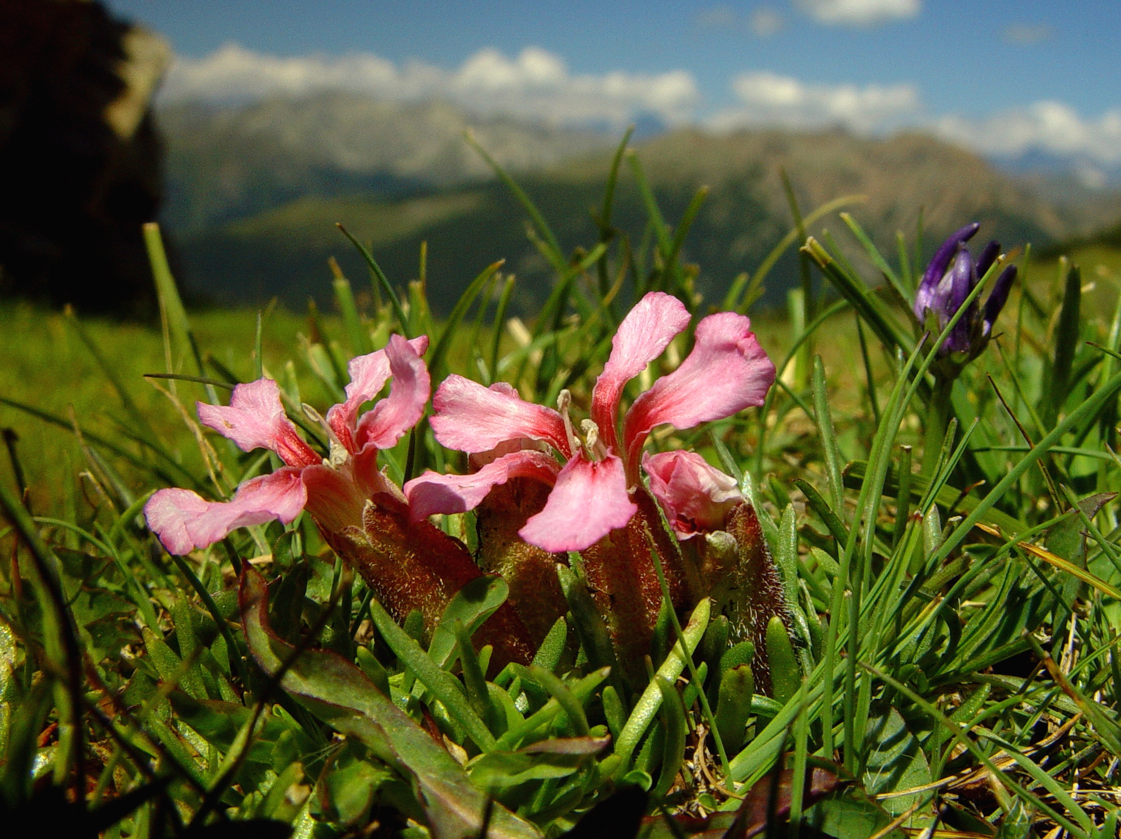 Saponaria pumilio